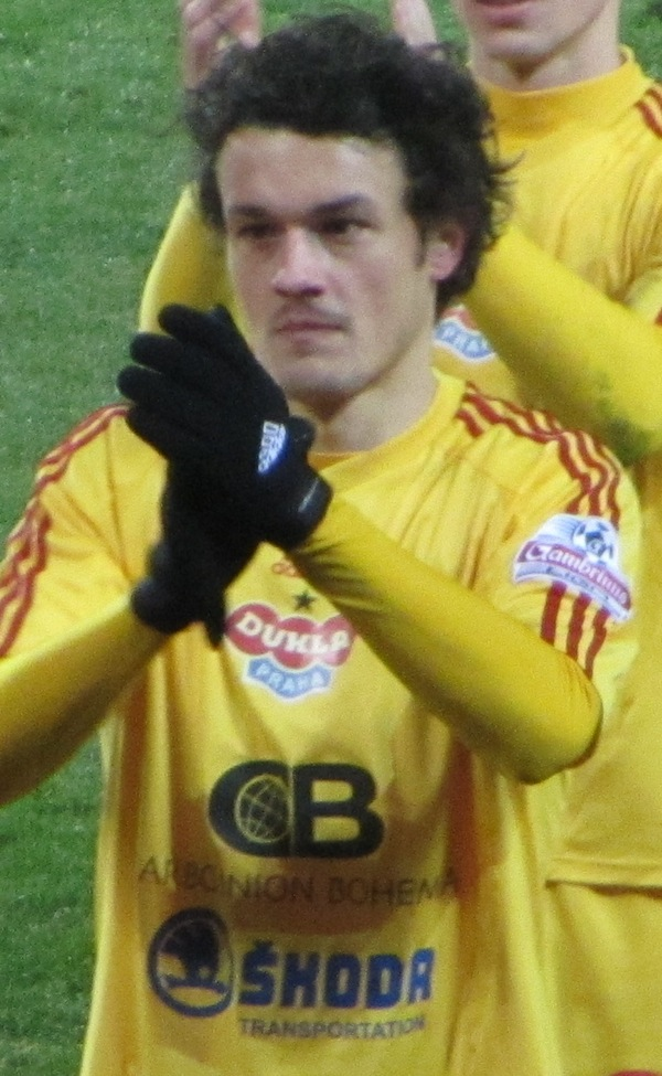 Tomislav Božić of FK Dukla Praha after the match against SK Slavia Praha